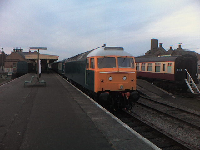 Preserved 47596 at Dereham on the Mid Norfolk Railway